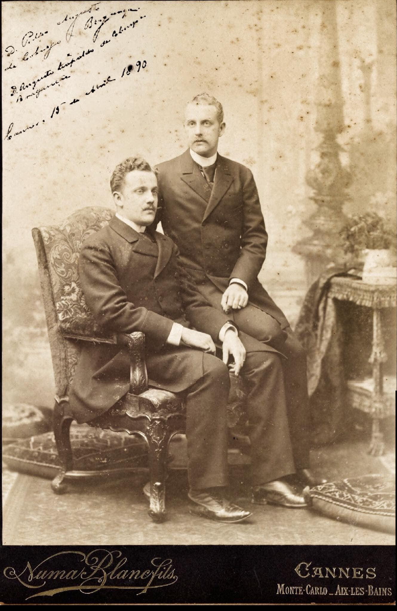 Prince Dom Pedro Augusto of Saxe-Coburg and Braganza (1866-1934) and his brother the Prince Dom Augusto Leopoldo of Saxe-Coburg and Braganza (1867-1922)